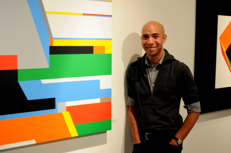 Artist Bryce Hudson standing in front of one of his large geometric paintings.